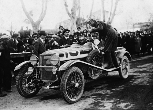 Tino Danieli and Renato Balestrero got second place in entry #13, an OM 665 Superba at 1927 Mille Miglia (27 March, 1927).[1]